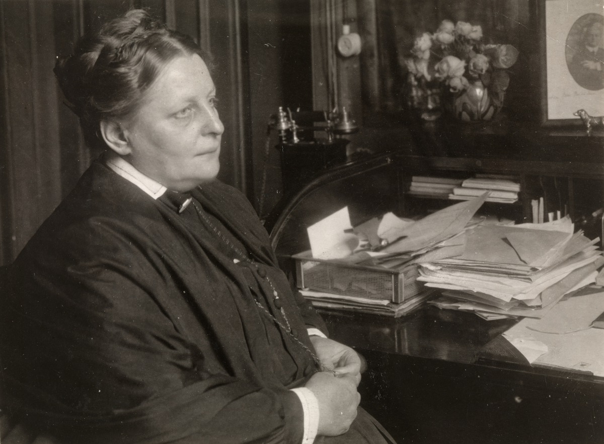 Norwegian nurse and leader of the norwegian nursing association Bergljot Larsson (1883–1968). Photo from between 1930 and 1935.